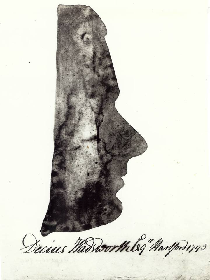 This is a governmental image used in the public domain.